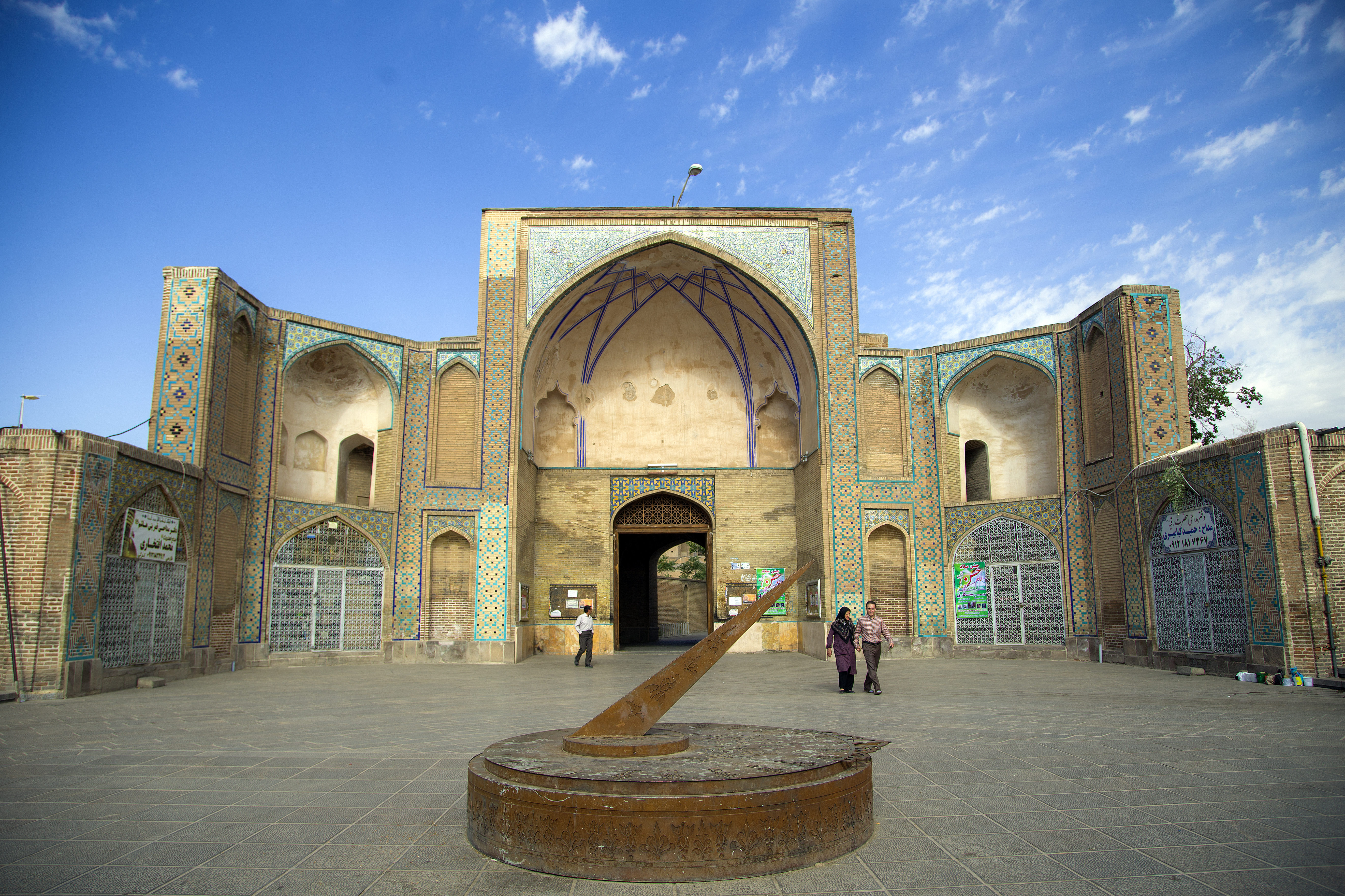 Jame Mosque of Qazvin (Persian: مسجد جامع عتيق قزوین – Masjid-e-Jameh Atiq Qazvin) is one of the oldest mosques in Iran, and is the grand, congregational mosque (Jameh Mosque) of Qazvin, in Qazvin Province, Iran.